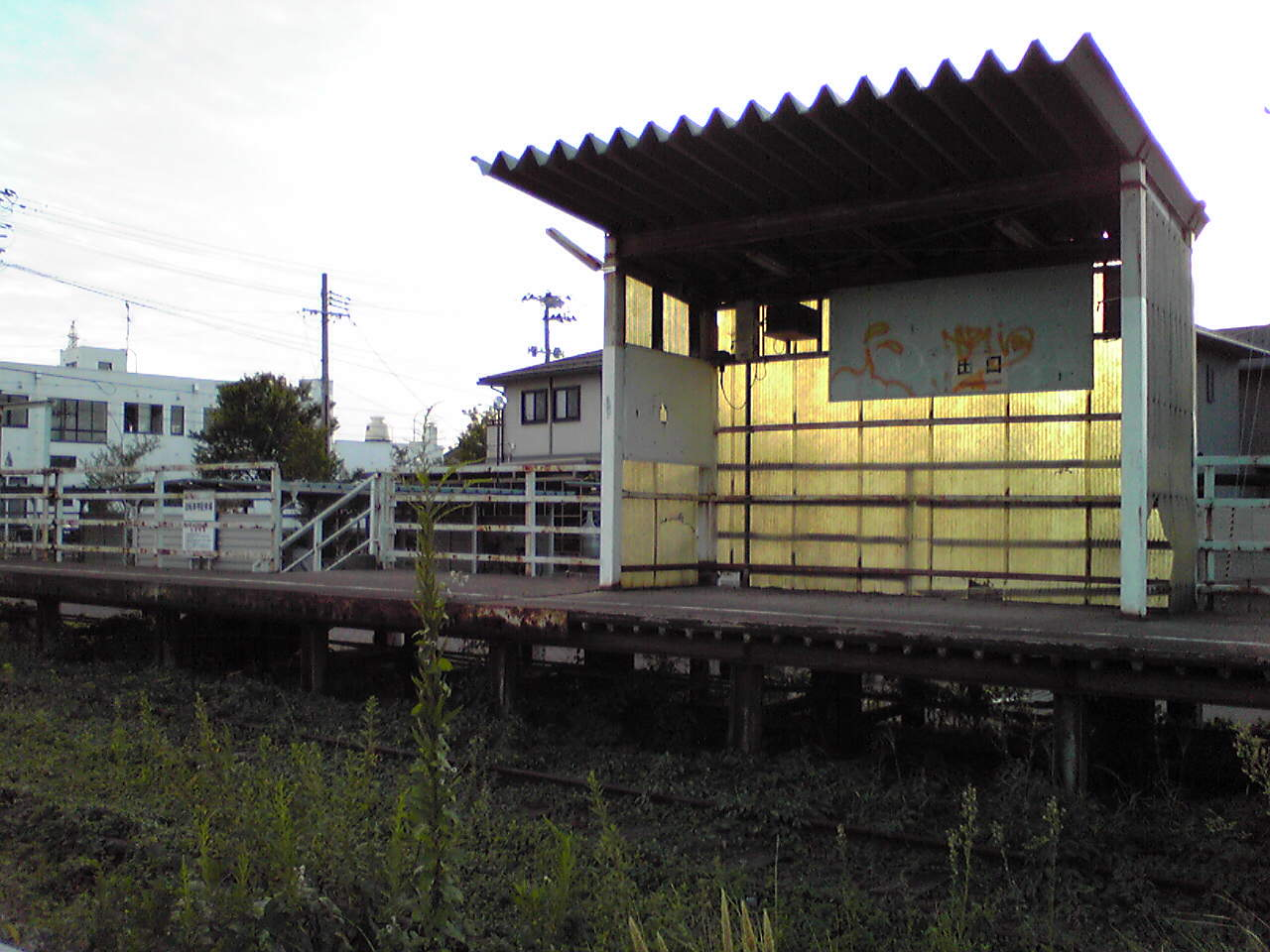 Niigata Kotsu Railway Teraji Station, which was abolished on 5 April 1999